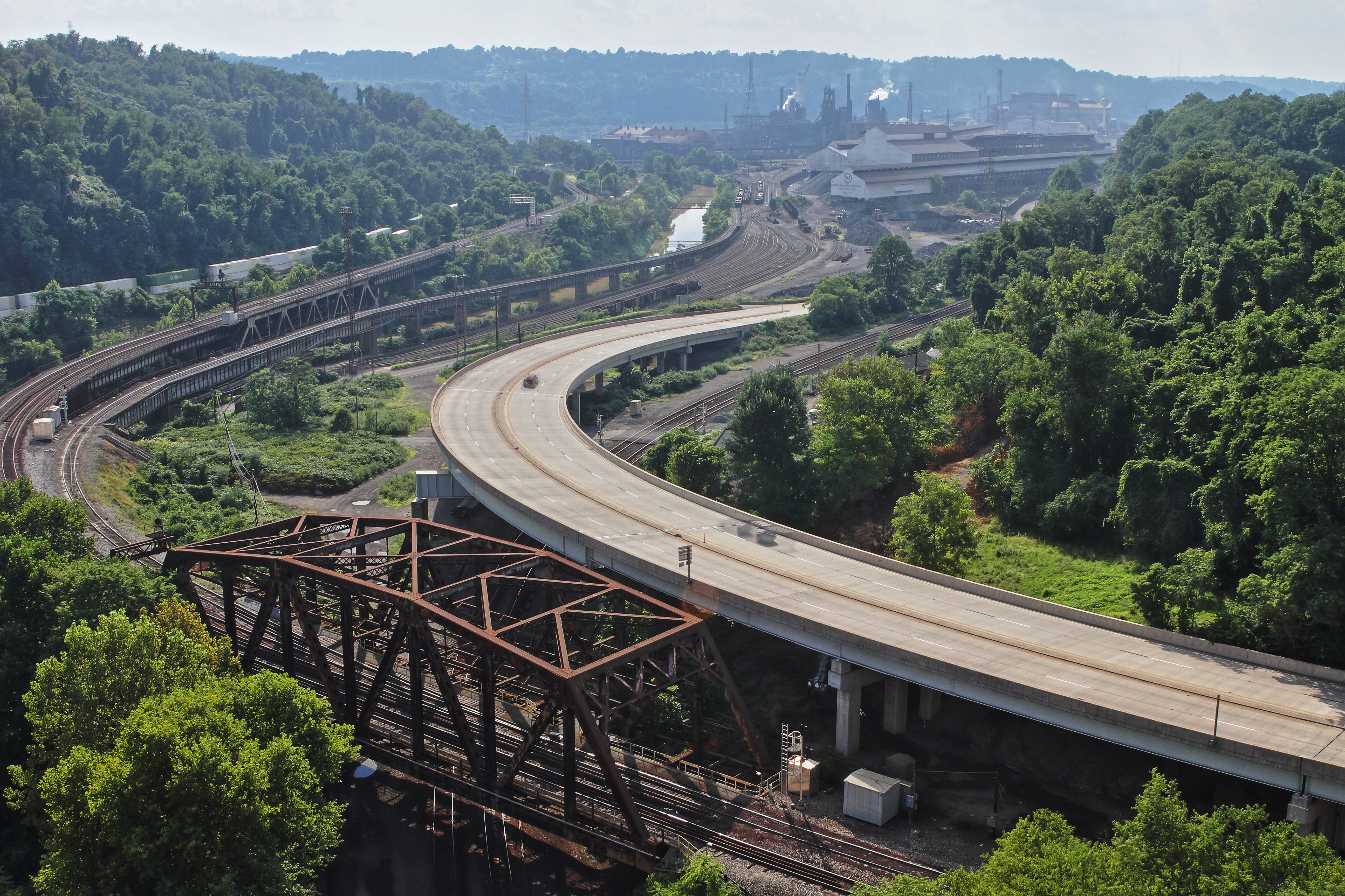 Edgar Thomson Steel Works, Braddock Avenue, and Turtle Creek in 2018 as viewed from the George Westinghouse Bridge.